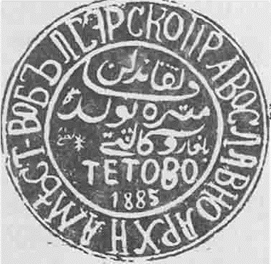 Bulgarian church seal in Tetovo